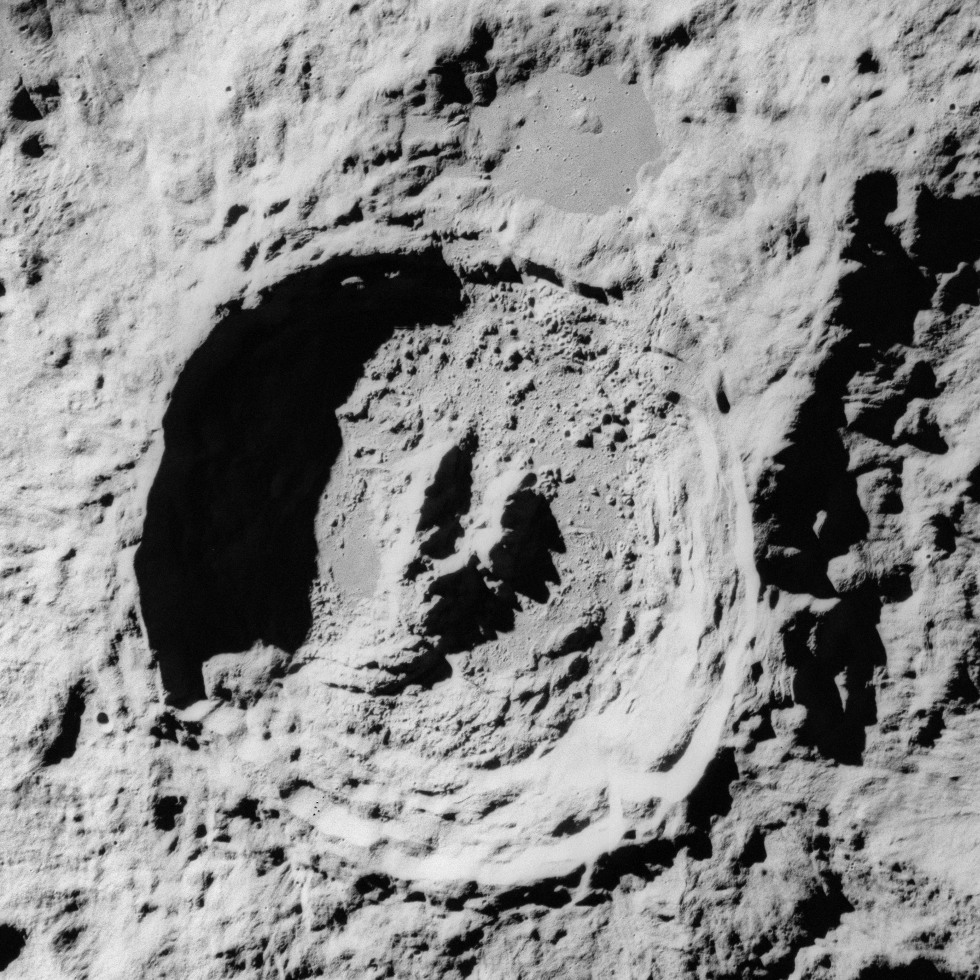 Oblique view of King, on the far side of the moon. The flat "pool" at top is King Y crater. North is in upper right.